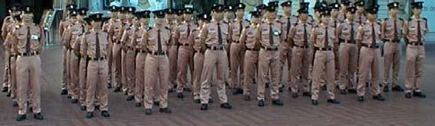 A group of security guards in Hong Kong lined up (fall-in) before on duty.